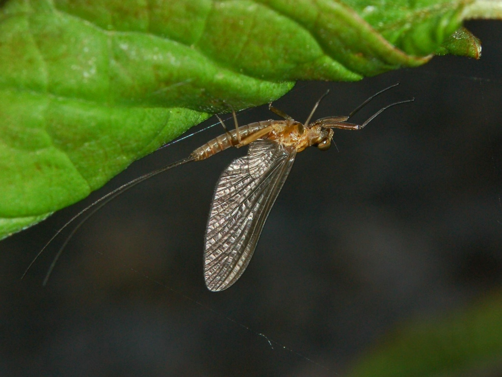 Siphlonurus lacustris in Val Noci, Genova, Italy